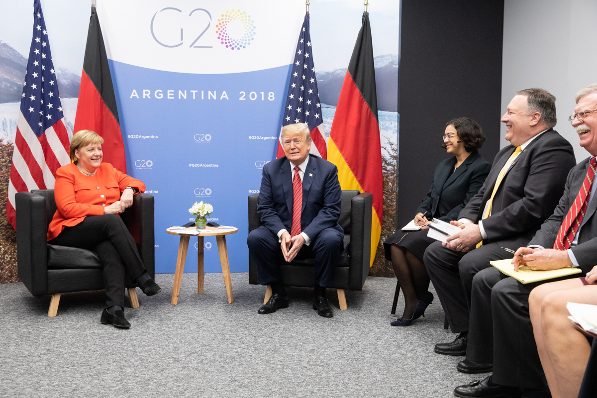 President Donald J. Trump participates in a bilateral meeting with German Chancellor Angela Merkel at the G20 Summit Saturday, Dec. 1, 2018, in Buenos Aires, Argentina. (Official White House Photo by Shealah Craighead)